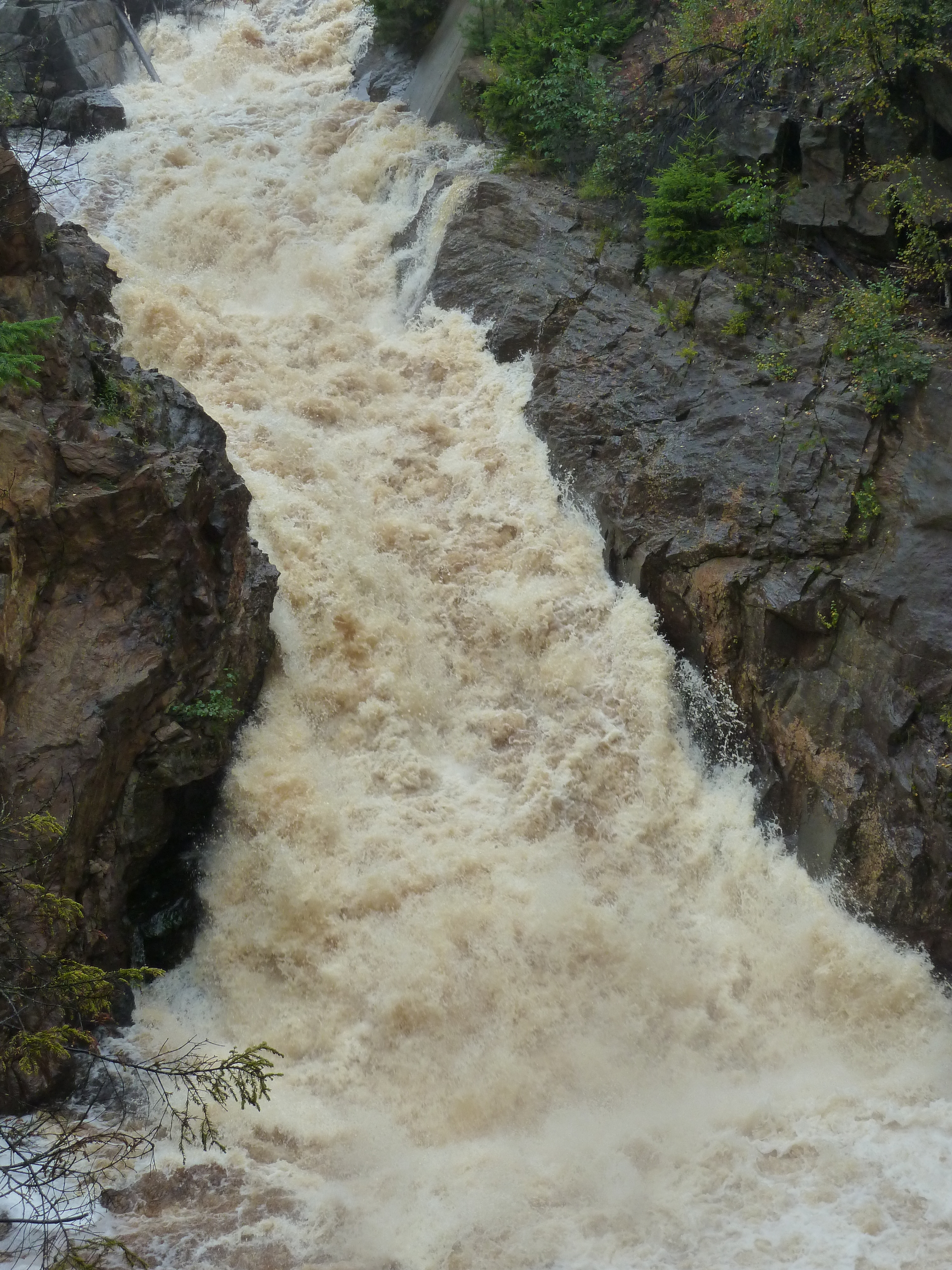 Sågfallet near Gottne, Ångermanland, Sweden